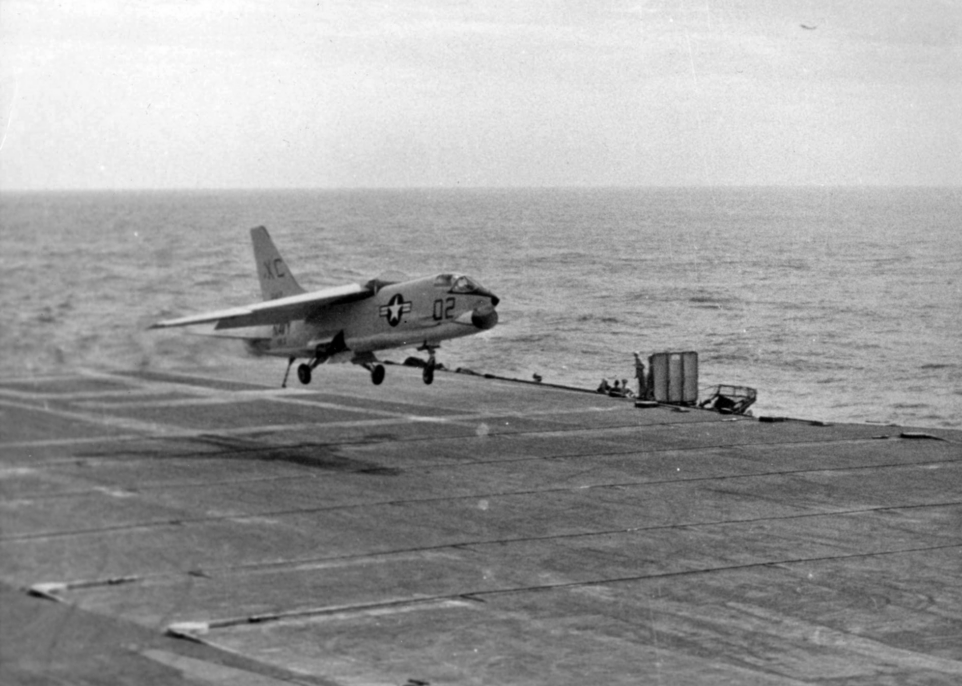 A U.S. Navy Vought F8U-1 Crusader from Experimental Squadron VX-3 moments before trapping on the aircraft carrier USS Saratoga (CVA-60).